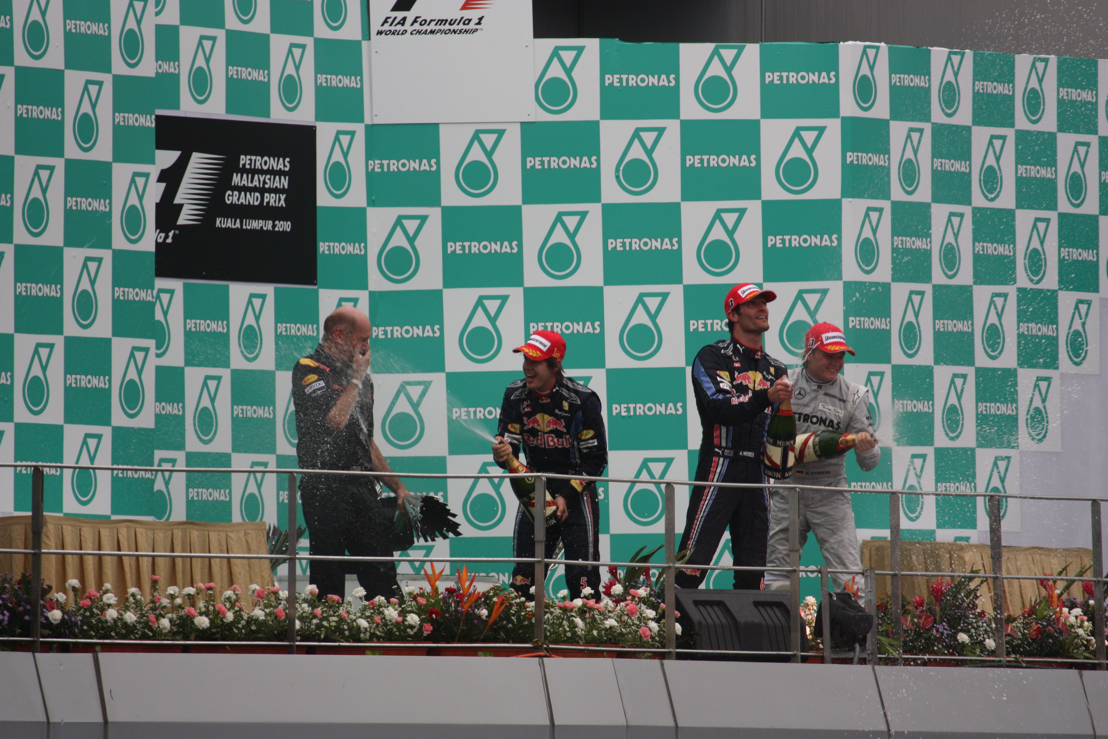 The podium of the 2010 Malaysian Grand Prix. From left to right: Adrian Newey, Sebastian Vettel, Mark Webber and Nico Rosberg.